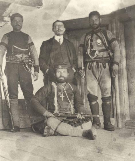 Gonos Iotas, Lazo Doiama, Alexandros Mazarakis, Apostolis Matopoulos.